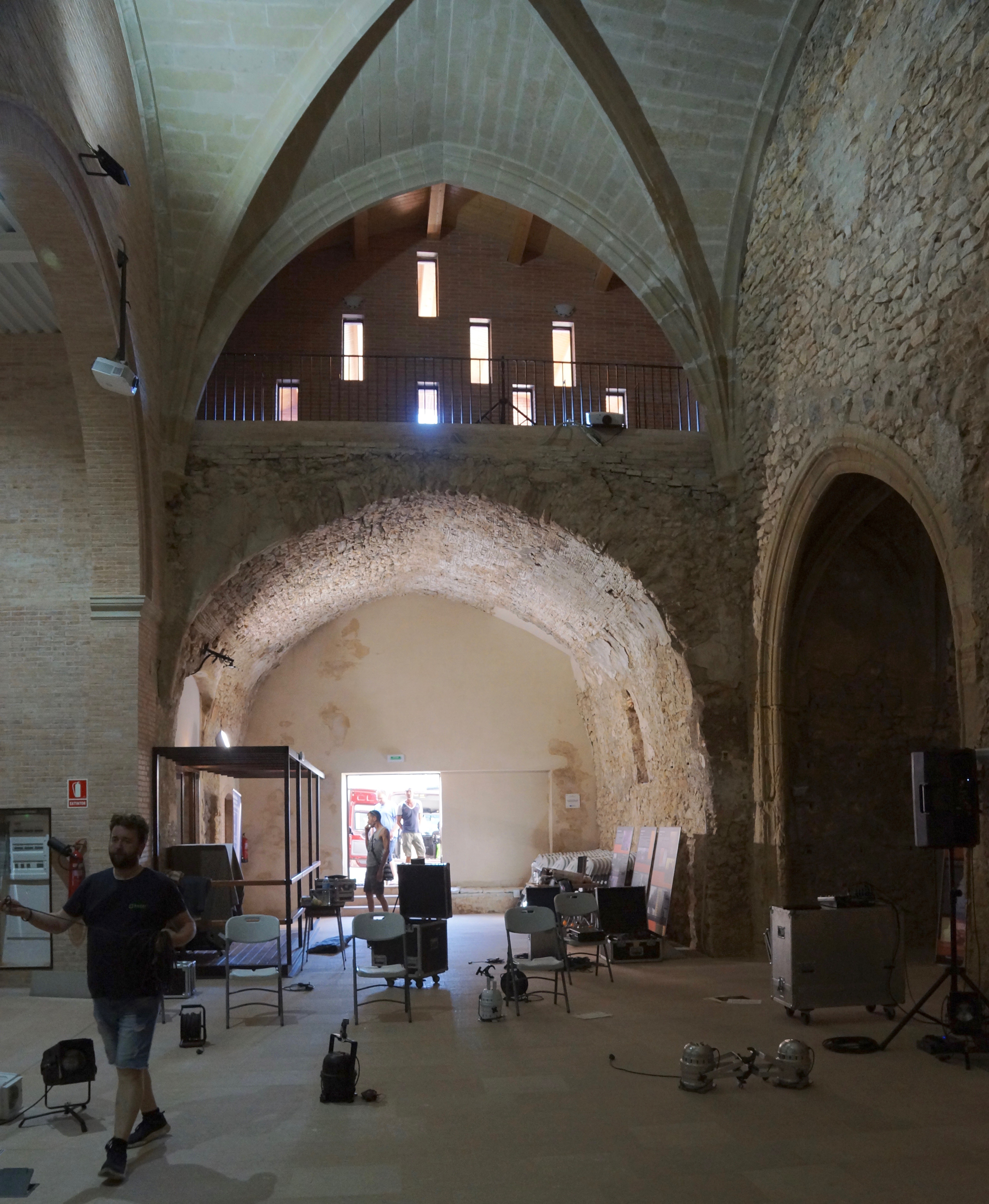 Ginestar, Catalonia: Interior of the Old Church (vella església)